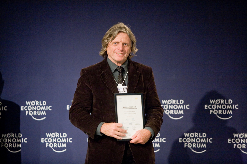 Martín von Hildebrand, ethnologist, spoken at the World Economic Forum on Latin America in Rio de Janeiro City, Rio de Janeiro State on April 15, 2009.